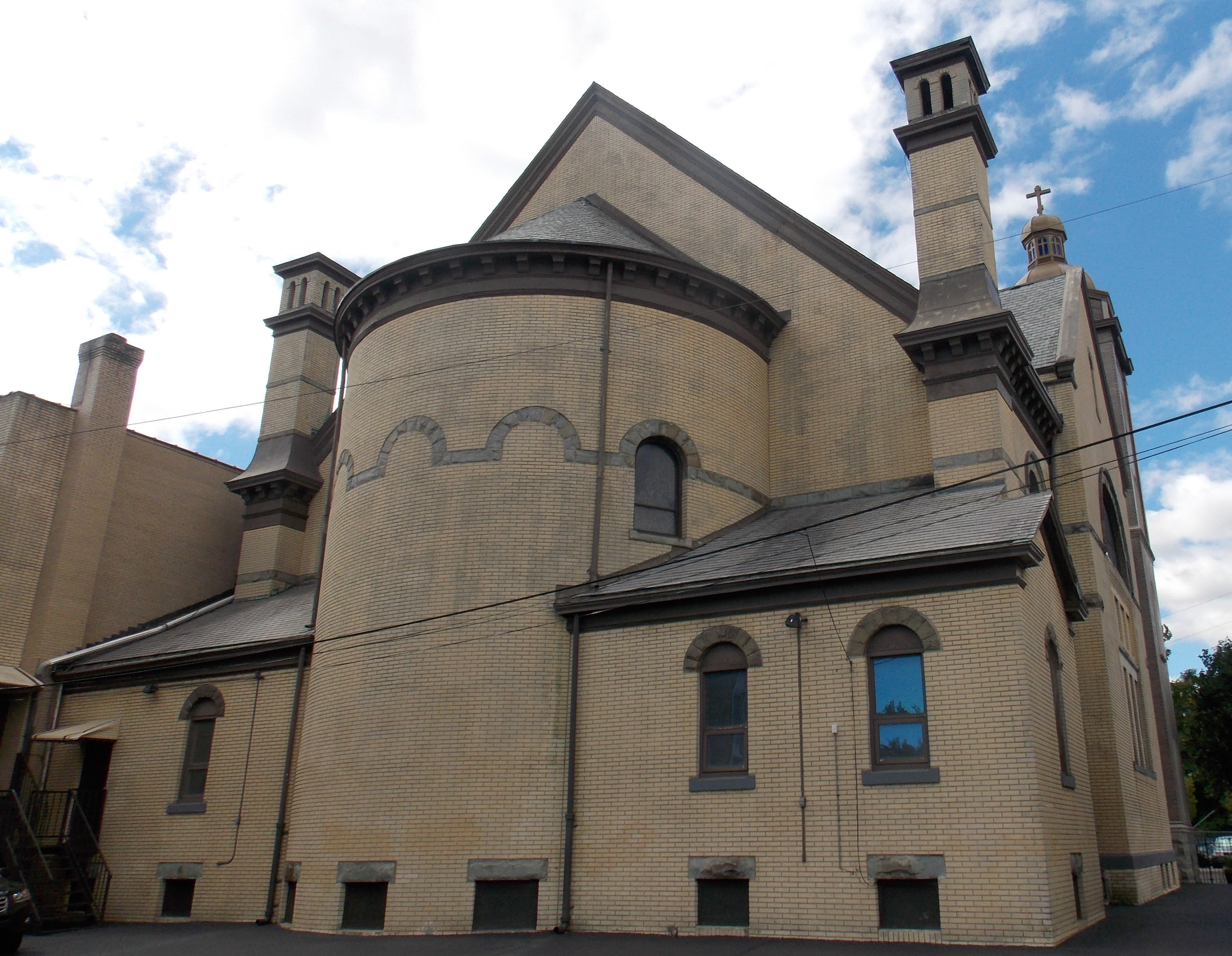 Cathedral of St. Michael the Archangel, Byzantine Catholic (Ruthenian), in Passaic, New Jersey.